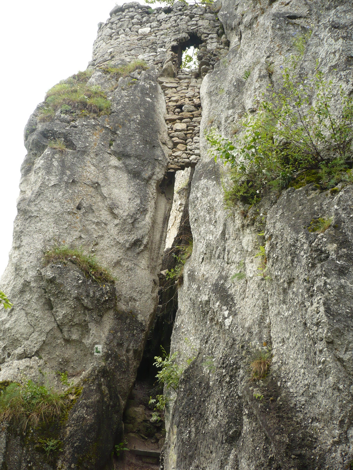 Súľov castle, Slovakia